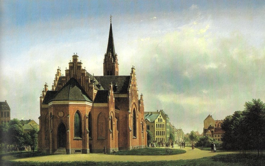 Biew of Sankt Johannes Kirke in Copenhagen, Denmark